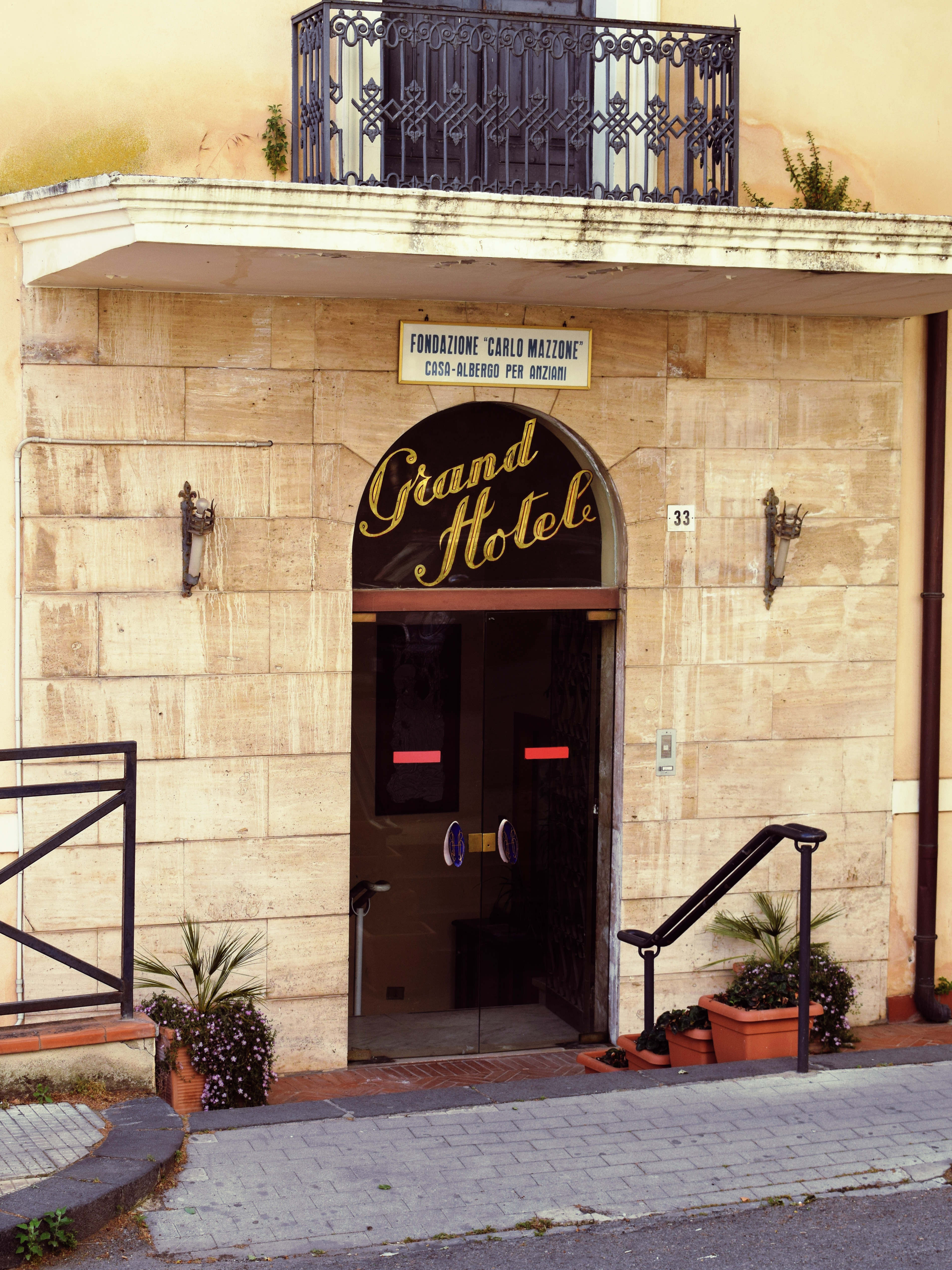 Entrance to Hotel Mazzone on Via Francesco Crispi, Caltanissetta, Italy.